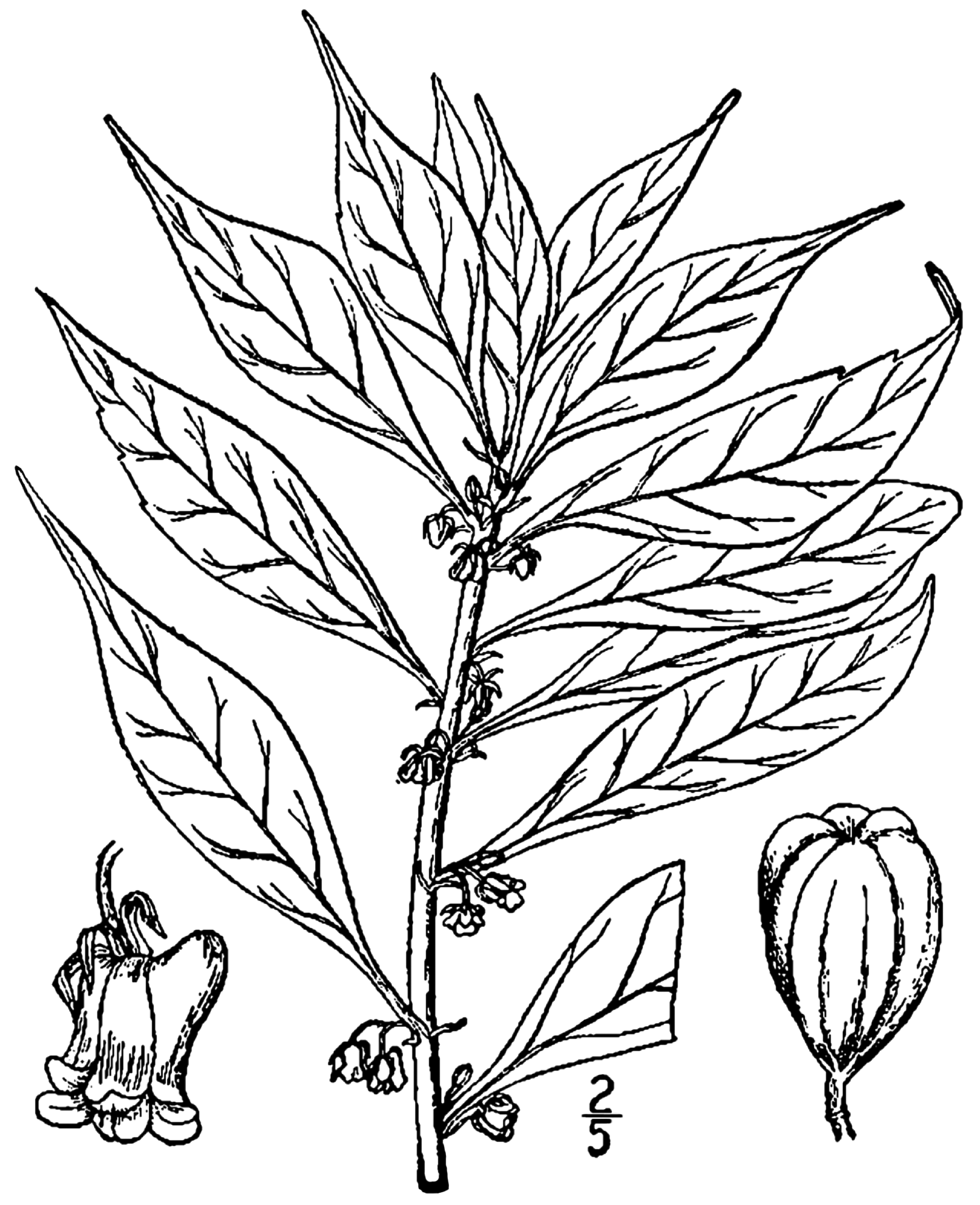 Hybanthus concolor (T.F. Forst.) Spreng. - eastern greenviolet